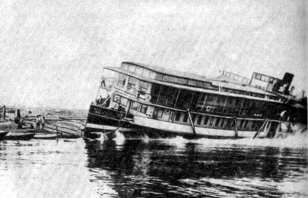 Steamship Velikaya knyazhna Olga Nikolayevna (later Volodarski) is being laid to water